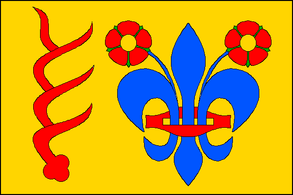 Municipal flag of Dětřichov village, Liberec District, Czech Republic.